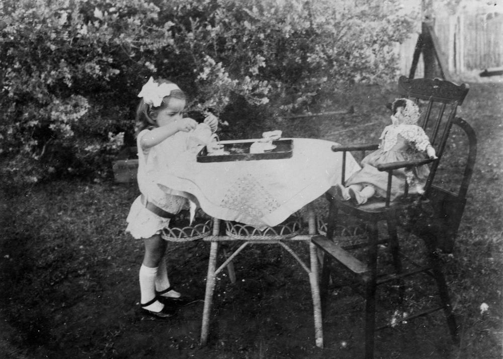 Girl pouring tea in a garden, 1915. Girl and a doll in a garden, 1915. The girl pours tea from a toy tea set. She has a bow in her hair and wears a dress, belt, shoes and socks. The doll is placed in a chair. A cloth covers the table on the lawn. A hedge and fence can be seen in the background.